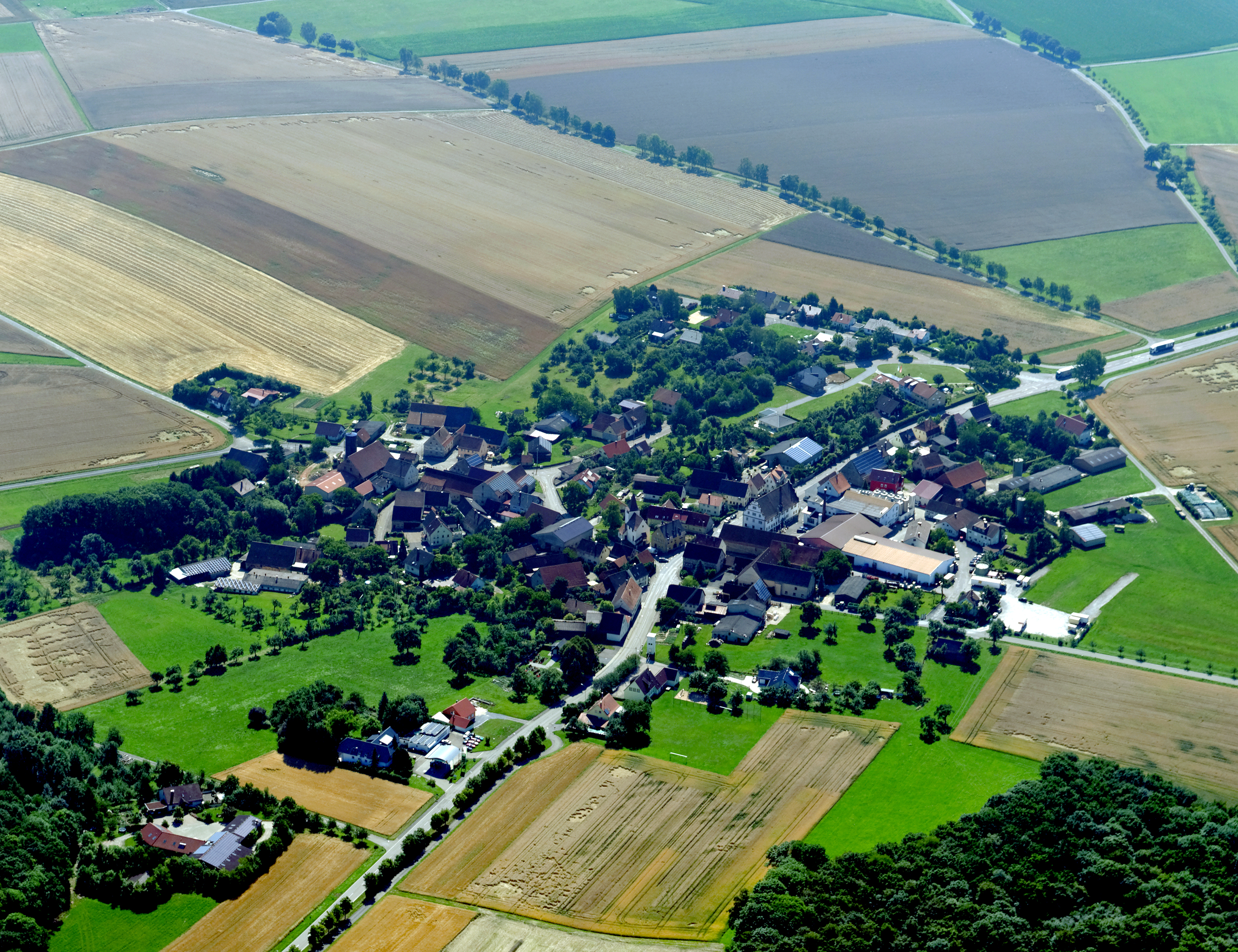 Herbsthausen, 12 km south of Bad Mergentheim, aerial photograph, road 290.